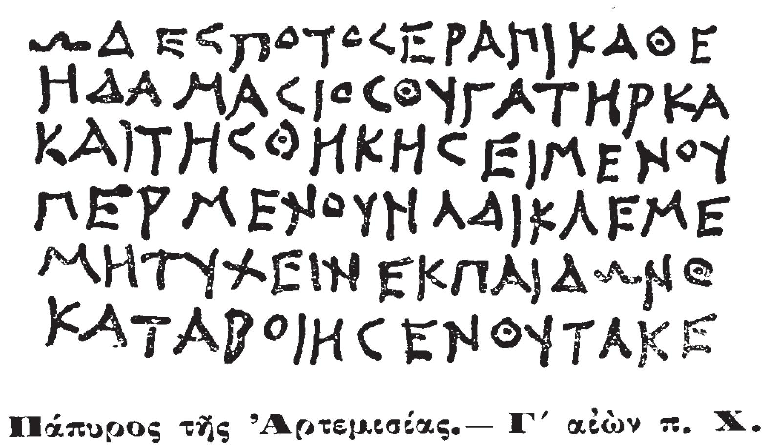 PAPYRUS OF ARTEMISIA-3RD CENTURY B.C.